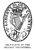 Belt plate of the Belfast Volunteers corps